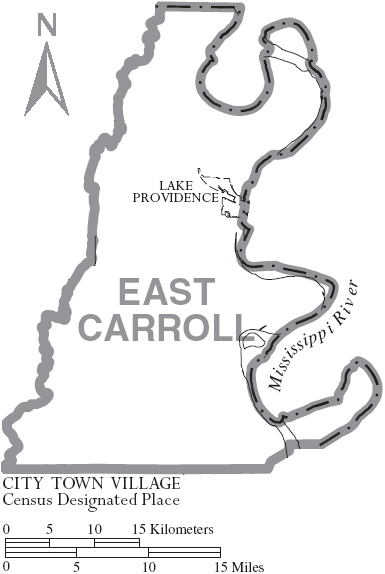 Map of East Carroll Parish, Louisiana, United States with municipal boundaries